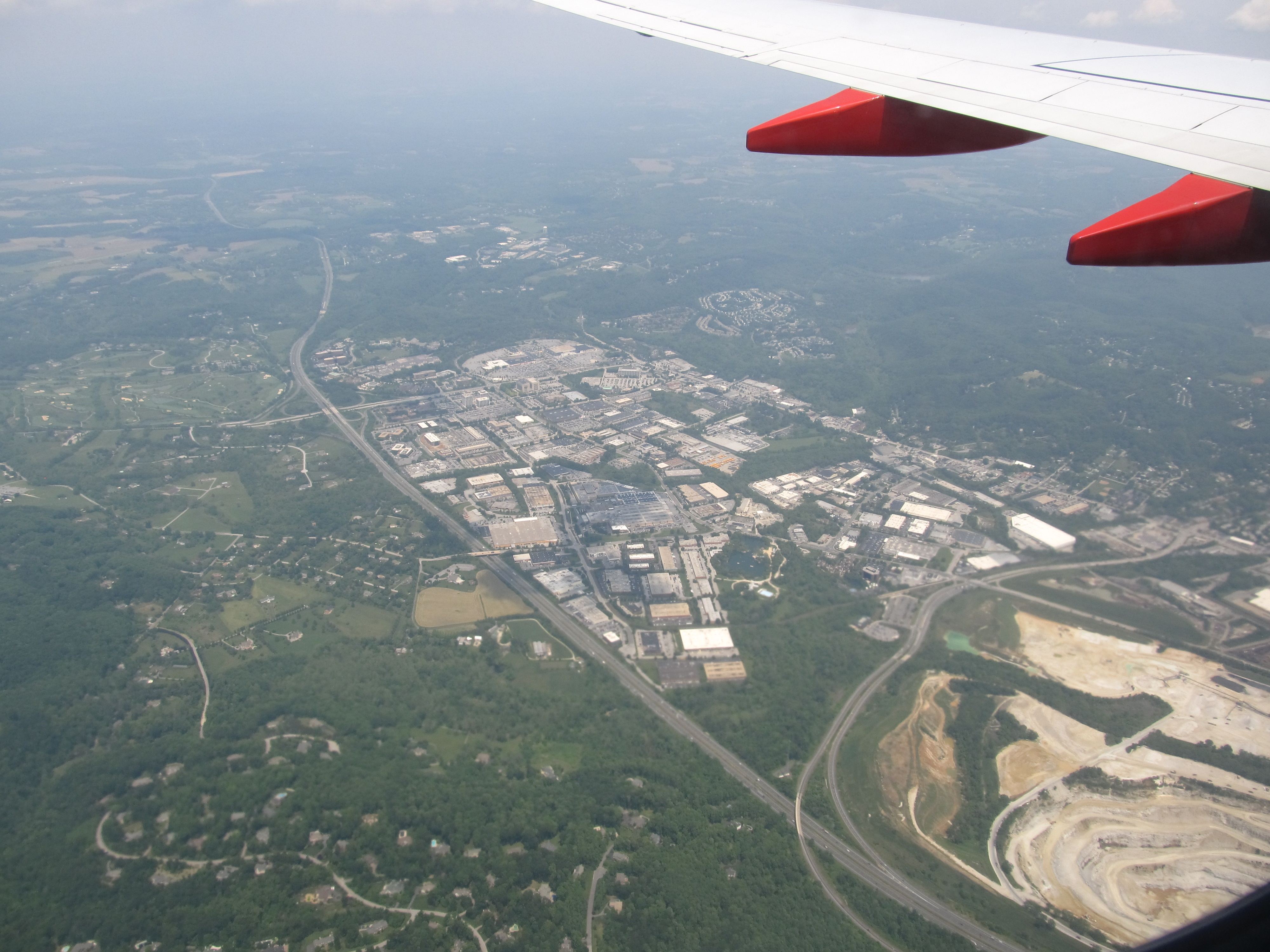 Cockeysville, Maryland as seen from the air